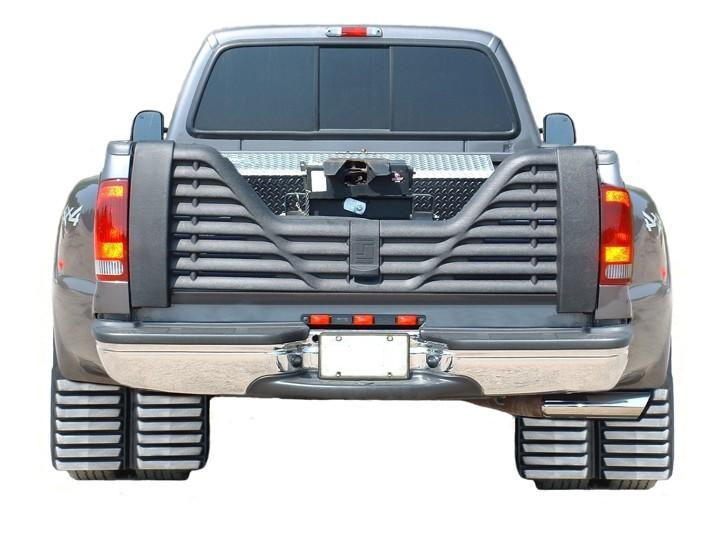 Dually aerodynamic mudflaps licence plate removed